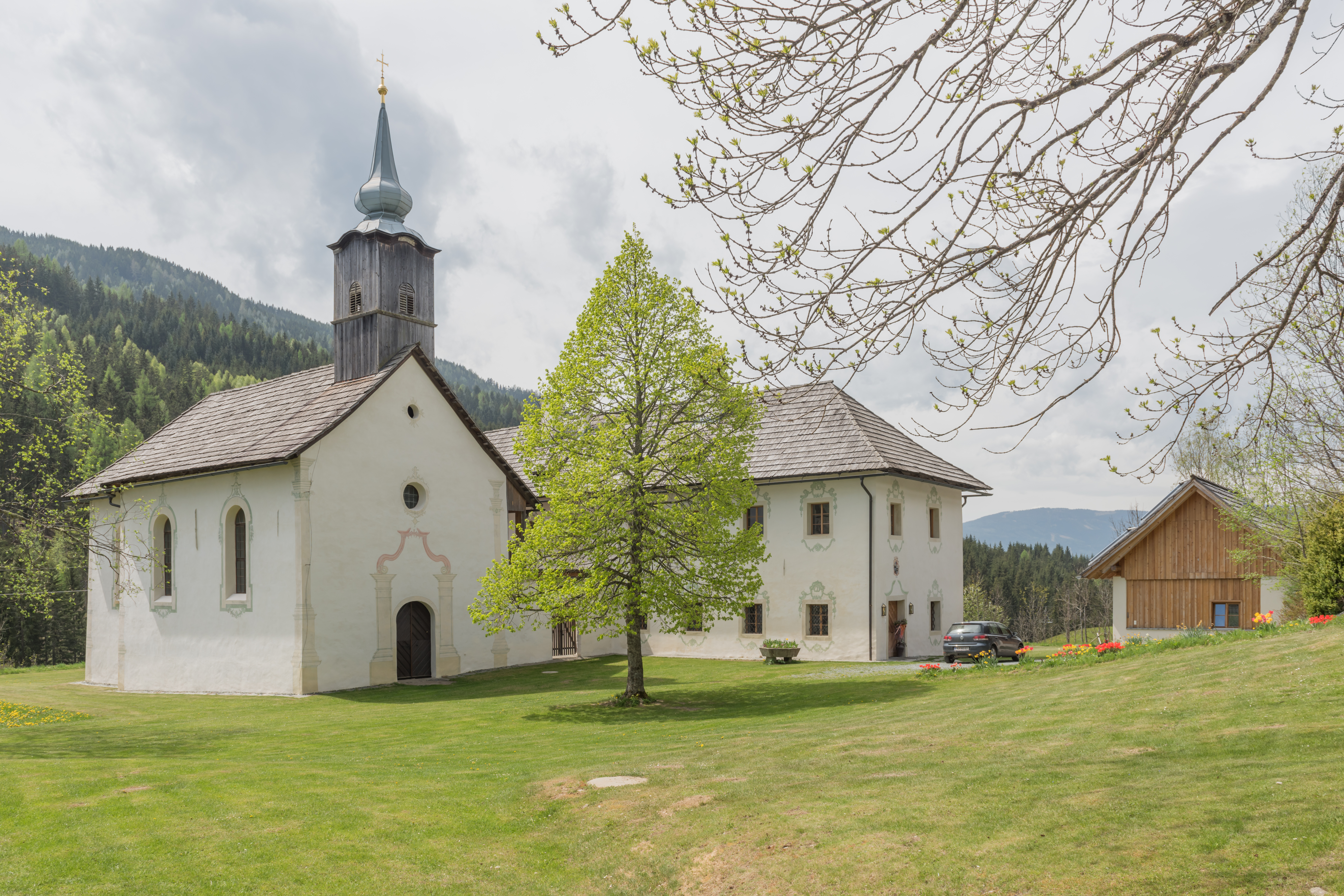 Parish church Holy Cross and the former hospice (Kloesterle) in Innerteuchen, municipality Arriach, district Villach Land, Carinthia, Austria, EU